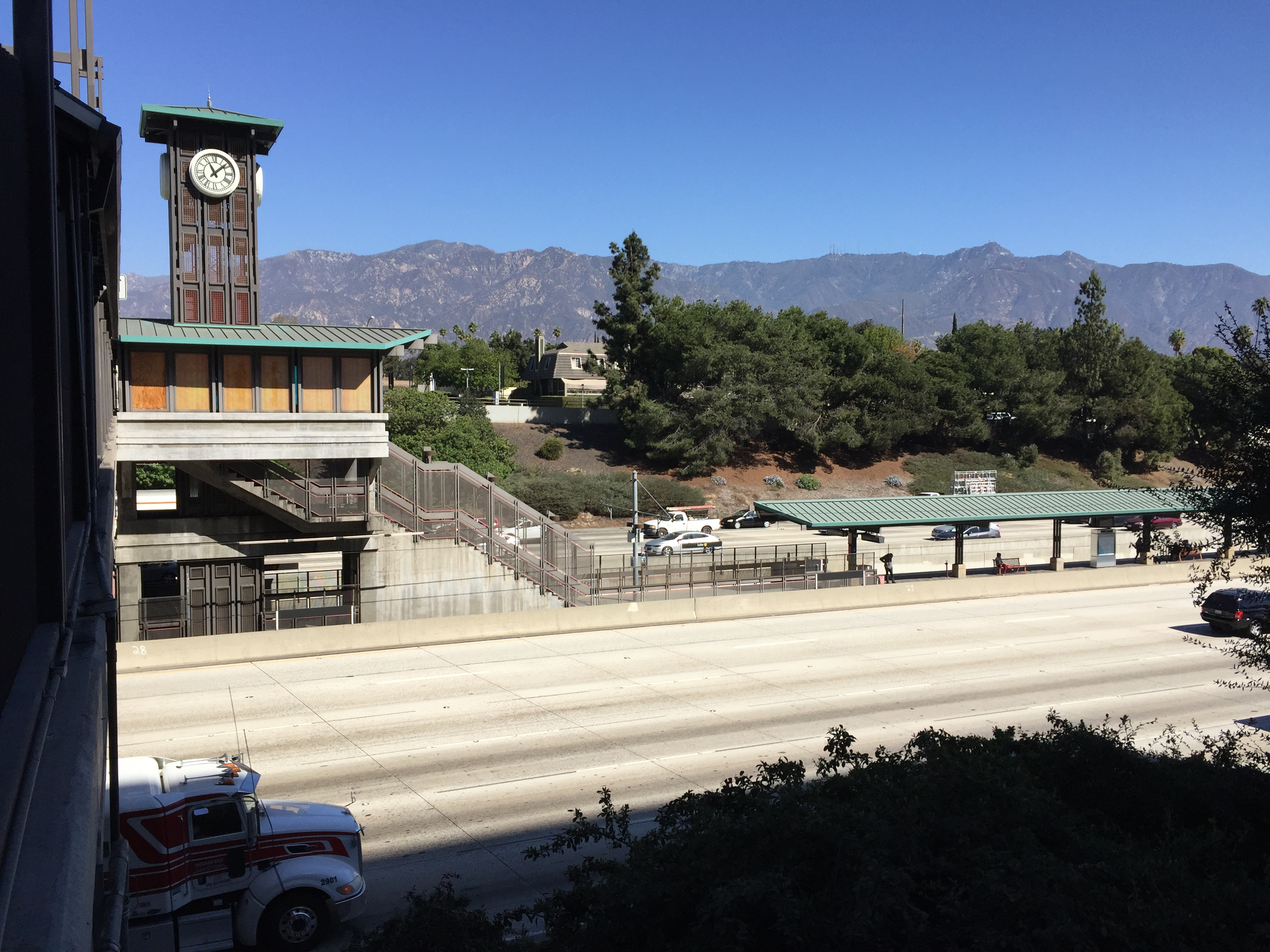 Exterior of the Lake LACMTA station in Pasadena, California in 2016